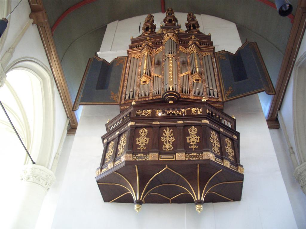 The Hooglandse Kerk in the Netherlands